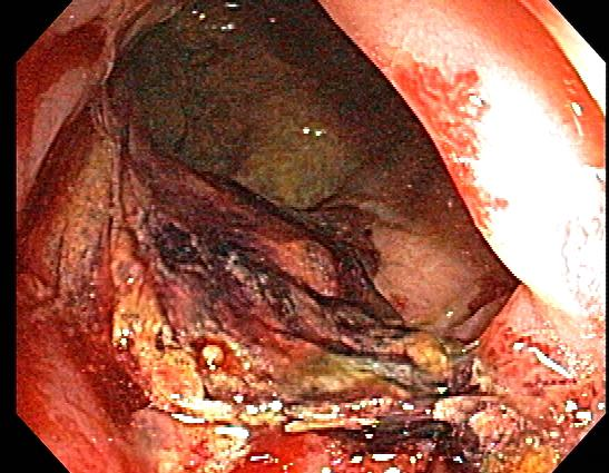 Radiation proctitis, moderate to severe, on colonscopy